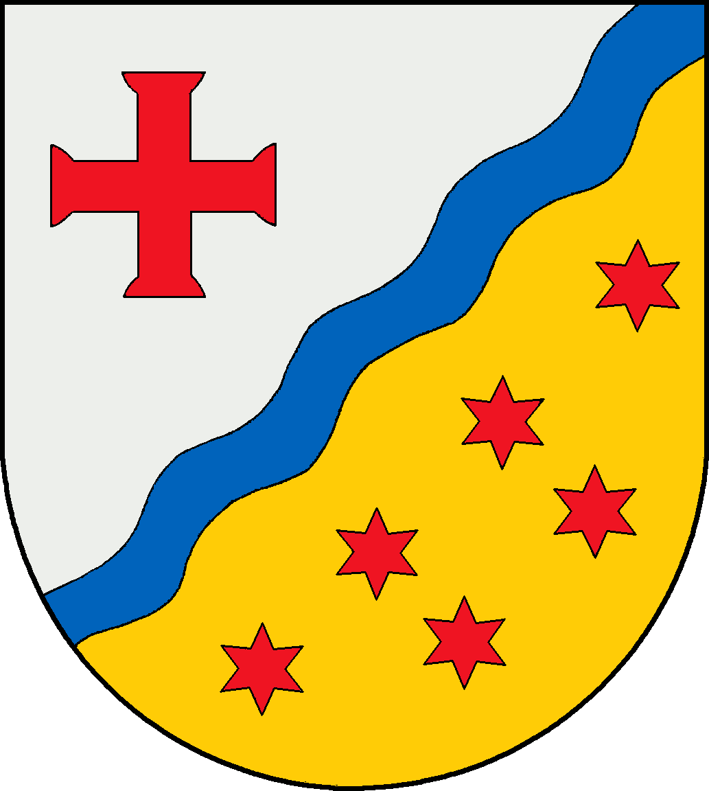 Coat of arms of the municipality Viöl in Schleswig-Holstein, Germany.